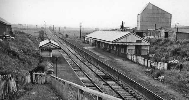 Bucknall & Northwood Station (remains). View SW, towards Stoke; ex-North Stafford, Stoke-on-Trent - Milton Jct. - Leek/Biddulph Valley lines. Passengers services to North Rode via Biddulph ceased 11/7/27, but this station survived until 7/5/56 when the regular service (but not excursions) to Leek was withdrawn 1/5/56. Goods was accepted until 4/6/62, and the Leek line remains open for minerals, the Biddulph line having also survived in part until 1977.